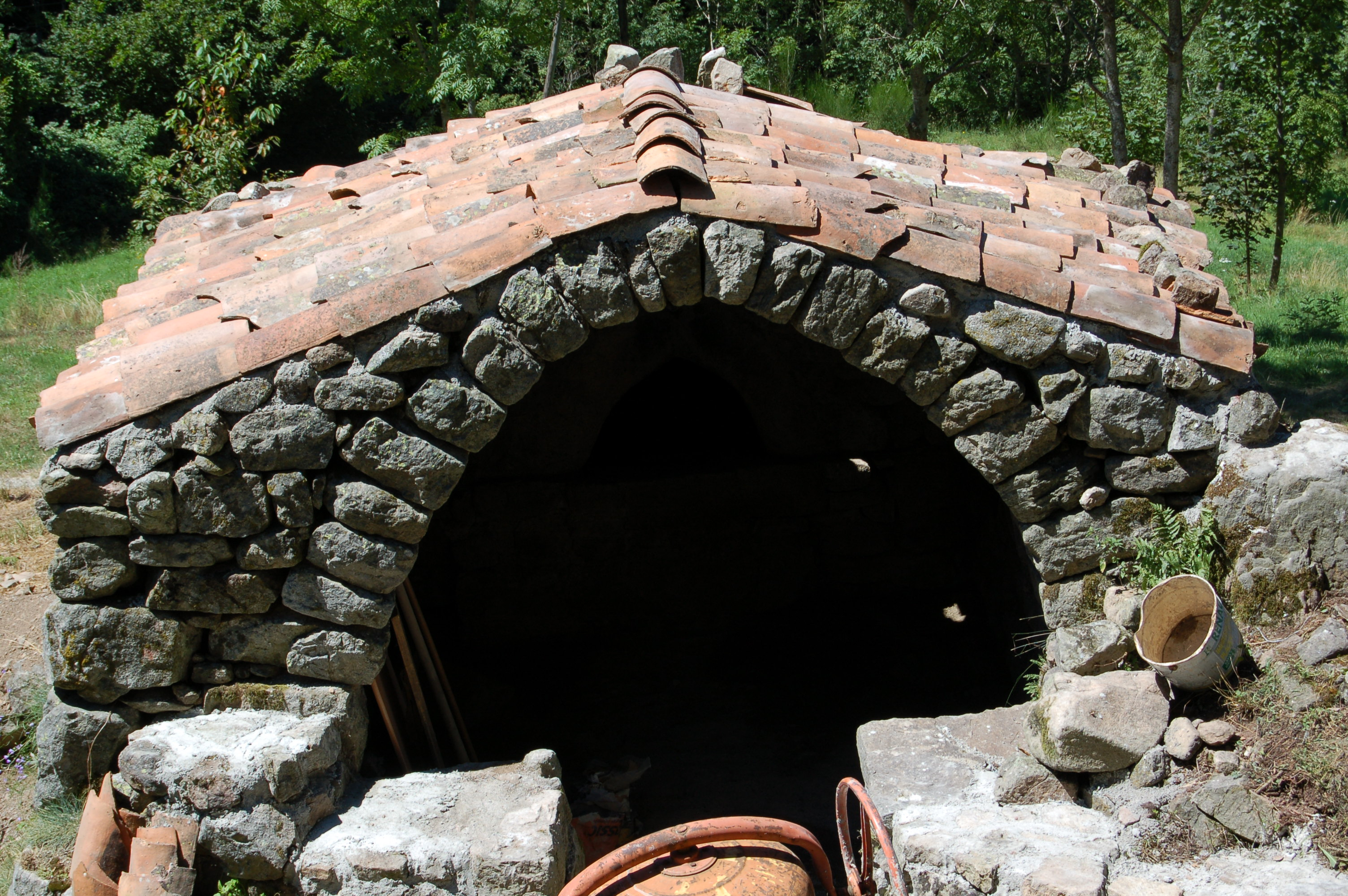 Bread oven - front